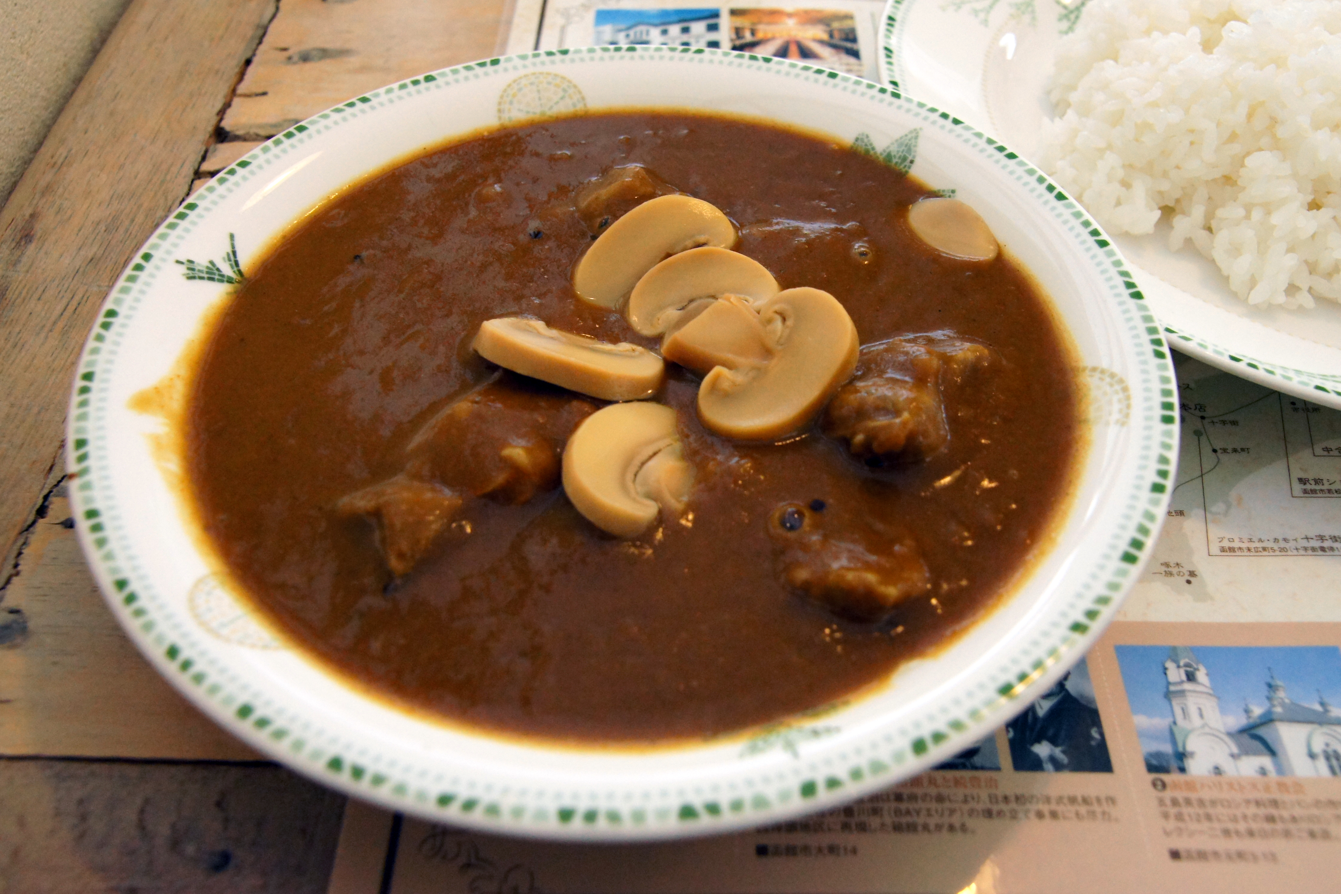 Goryōkaku Tower in Hakodate, Hokkaido prefecture, Japan